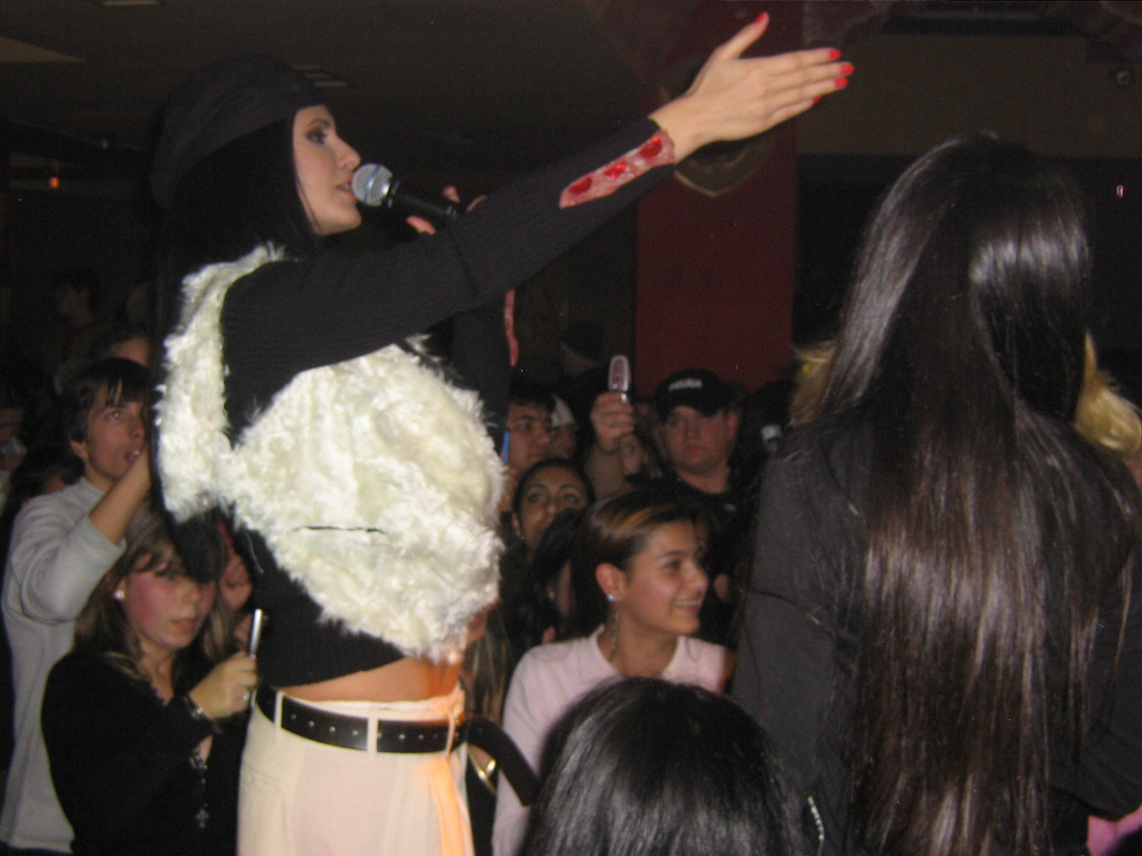 anelia